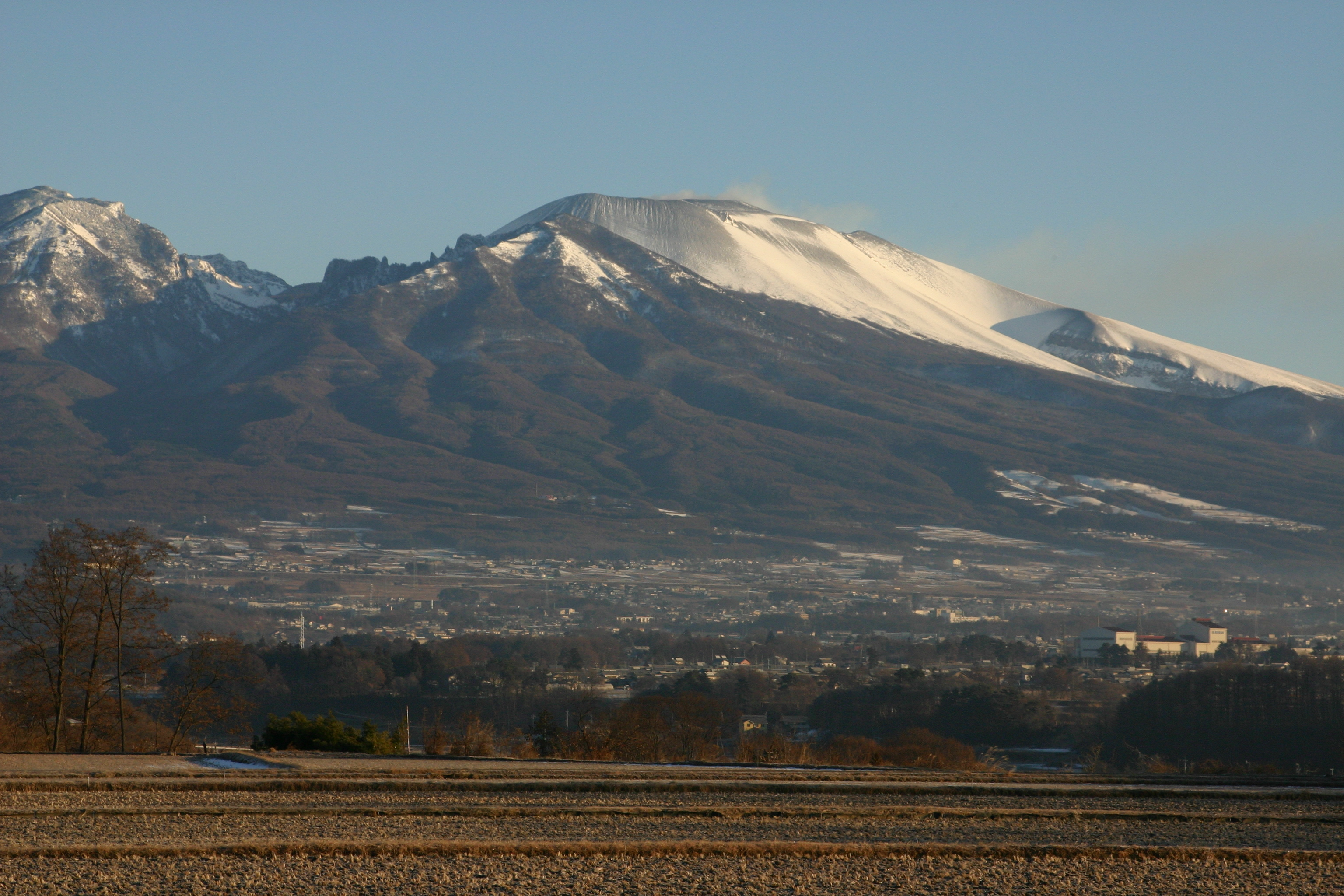 Mount Asama as seen from the SSW.